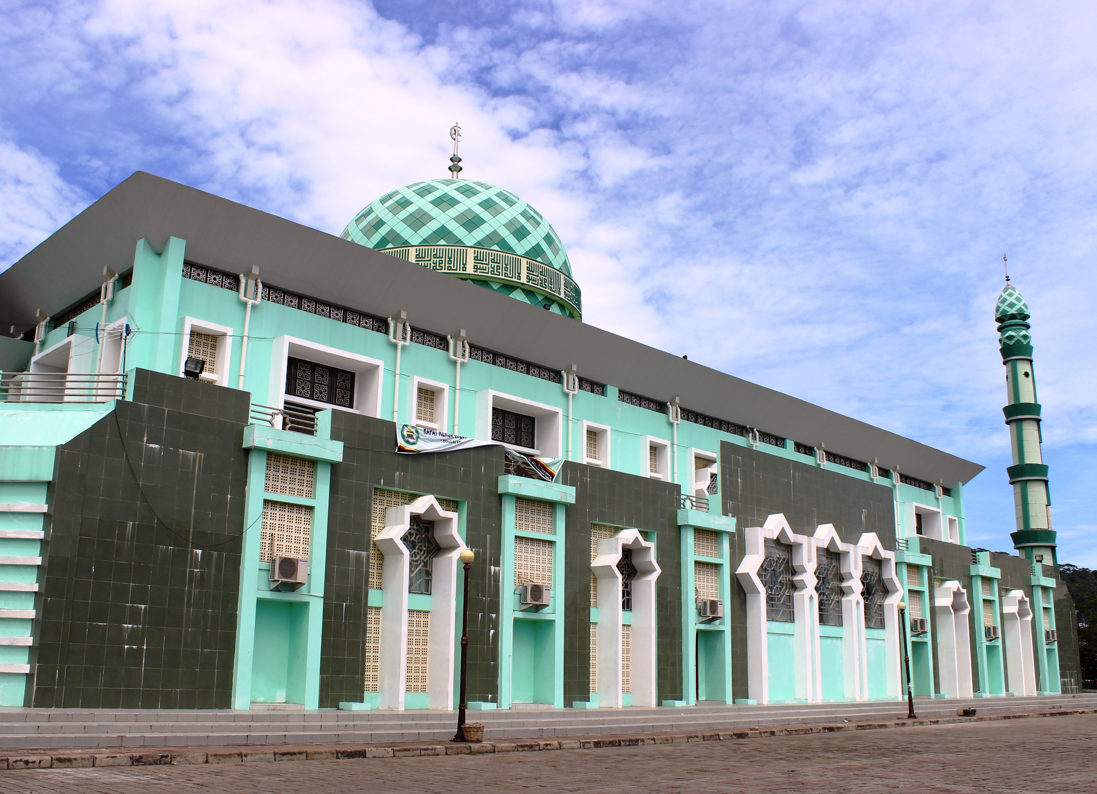 Nurul Iman mosque crop